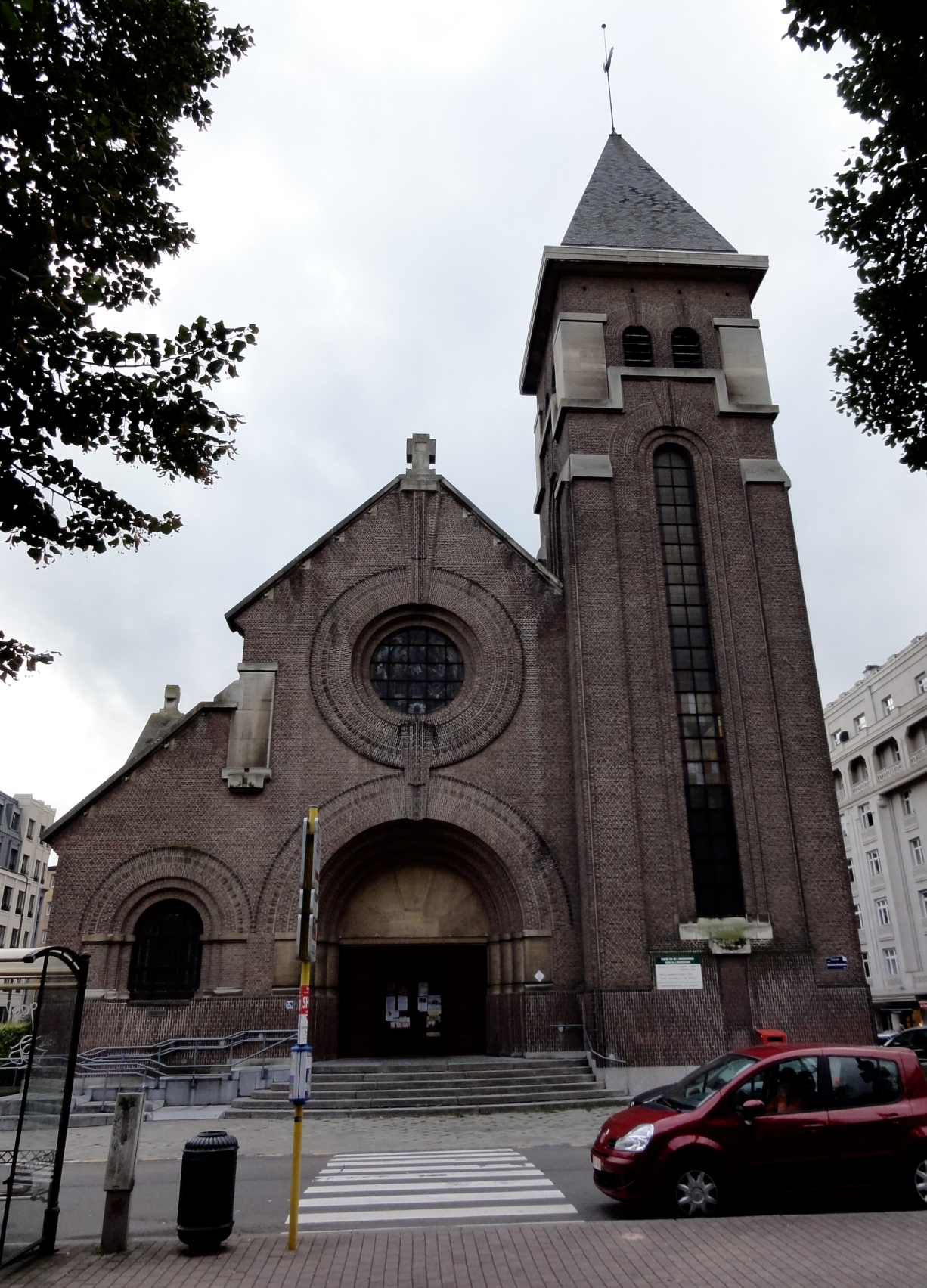 Facade of the Church of Our Lady of the Annunciation in Ixelles (Brussels), Belgium